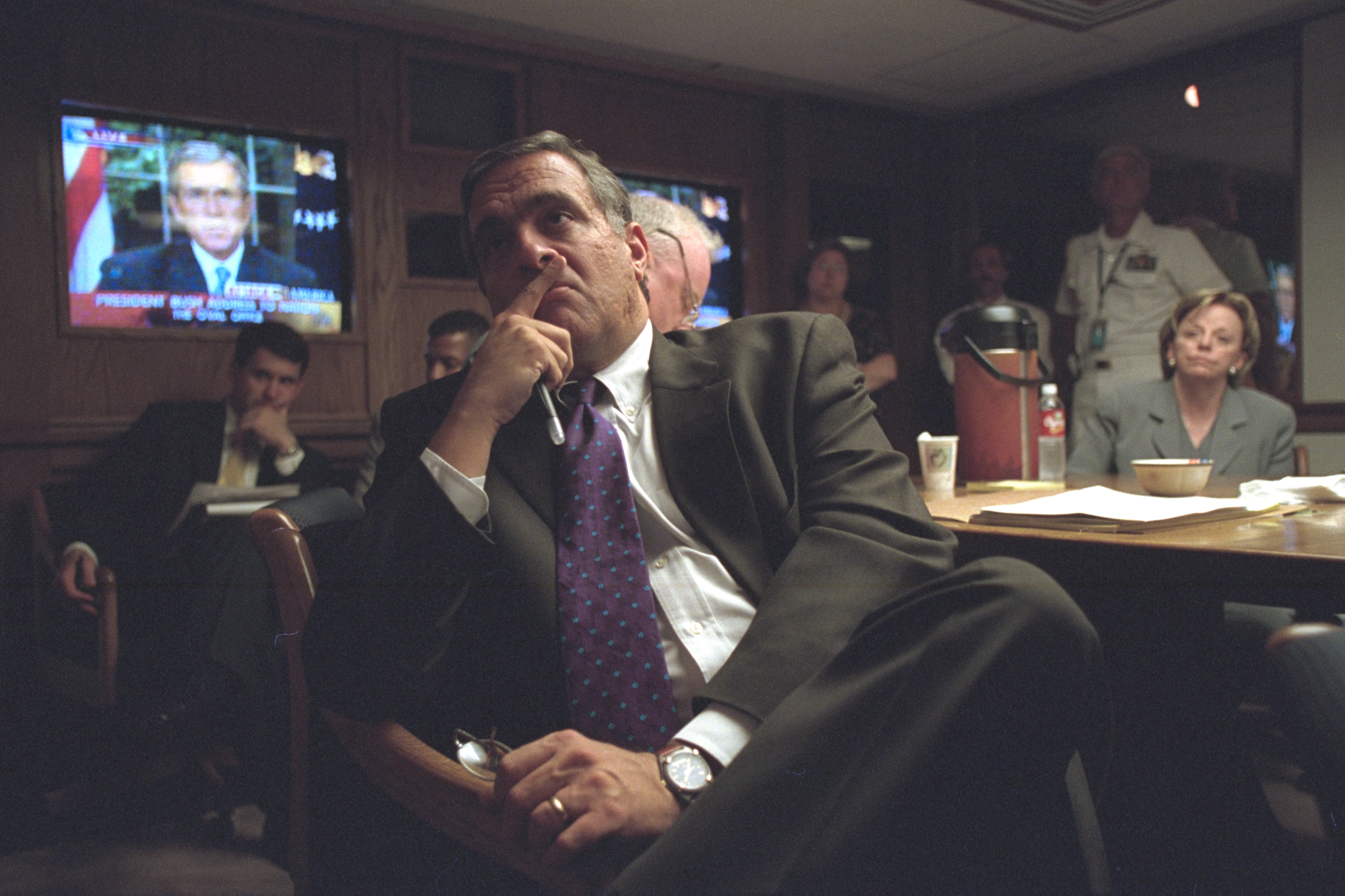 These images have been released in response to a FOIA request, case number 2014-0012-F, received by the National Archives. For more information on these images, please visitResearching Vice Presidential Materials. These photos will be available in the National Archives Catalog in July 2015. Local Identifier: V1557-13 Created By: President (2001-2009 : Bush). Office of Management and Administration. Office of White House Management. Photography Office. 1/20/2001-1/20/2009 From: Collection: Vice Presidential Records of the Photography Office (George W. Bush Administration), 1/20/2001 - 1/20/2009 Contact: Presidential Materials Division (LM) National Archives Building 7th and Pennsylvania Avenue NW Washington, DC 20408 Phone: 202-357-5200 Fax: 202-357-5939 Production Dates: 9/11/2001 Persistent URL: Access Restrictions: Unrestricted Use Restrictions: Unrestricted